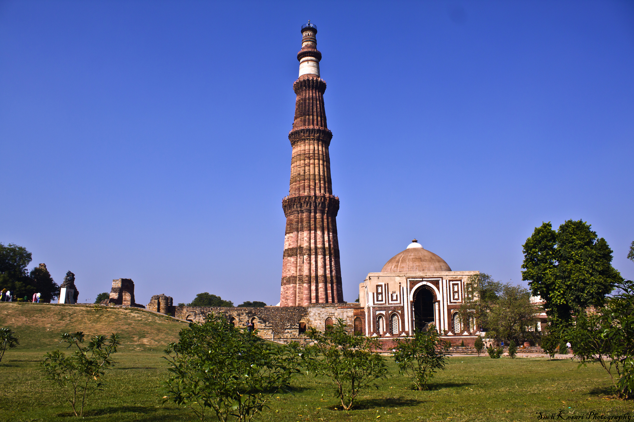 The Qutub Minar